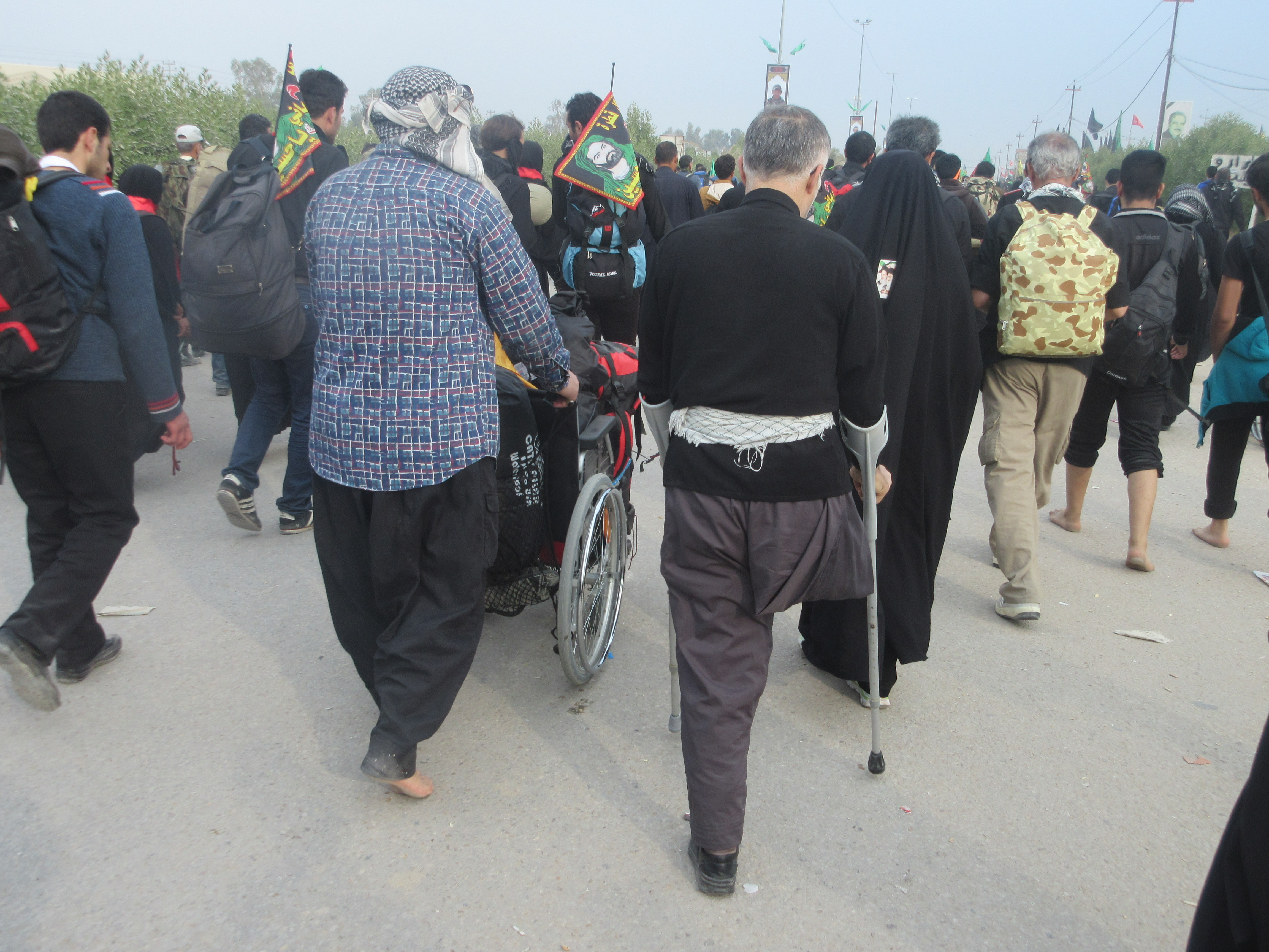 A handicapped man participating Arbaeen pilgrimage, going from Najaf to Karbala on foot